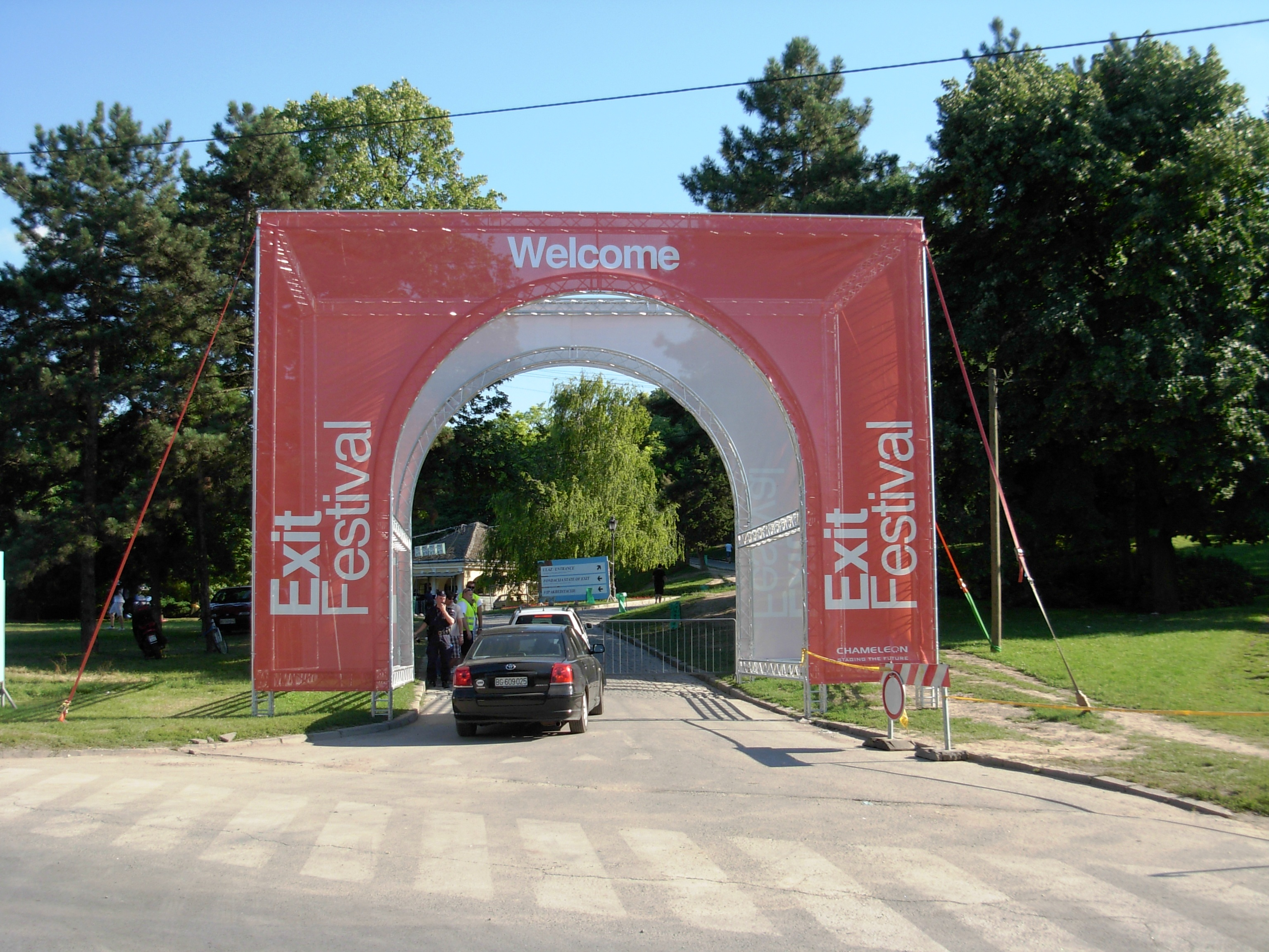 The main entrance (gate) at EXIT Festival 2010